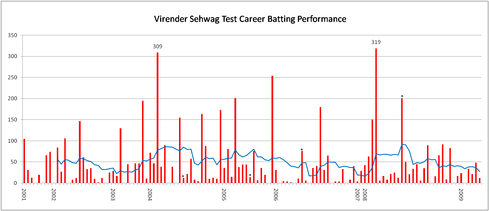 This graph details the Test Match performance of Virender Sehwag. The red bars indicate the player's test match innings, while the blue line shows the average of the ten most recent innings at that point. Note that this average cannot be calculated for the first nine innings. The blue dots indicate those innings in which Sehwag finished not-out. This graph was generated with Microsoft Excel 2007 and Microsoft PowerPoint 2007, using data from Cricinfo [1]. The information in this chart is current as of 11 May, 2009.